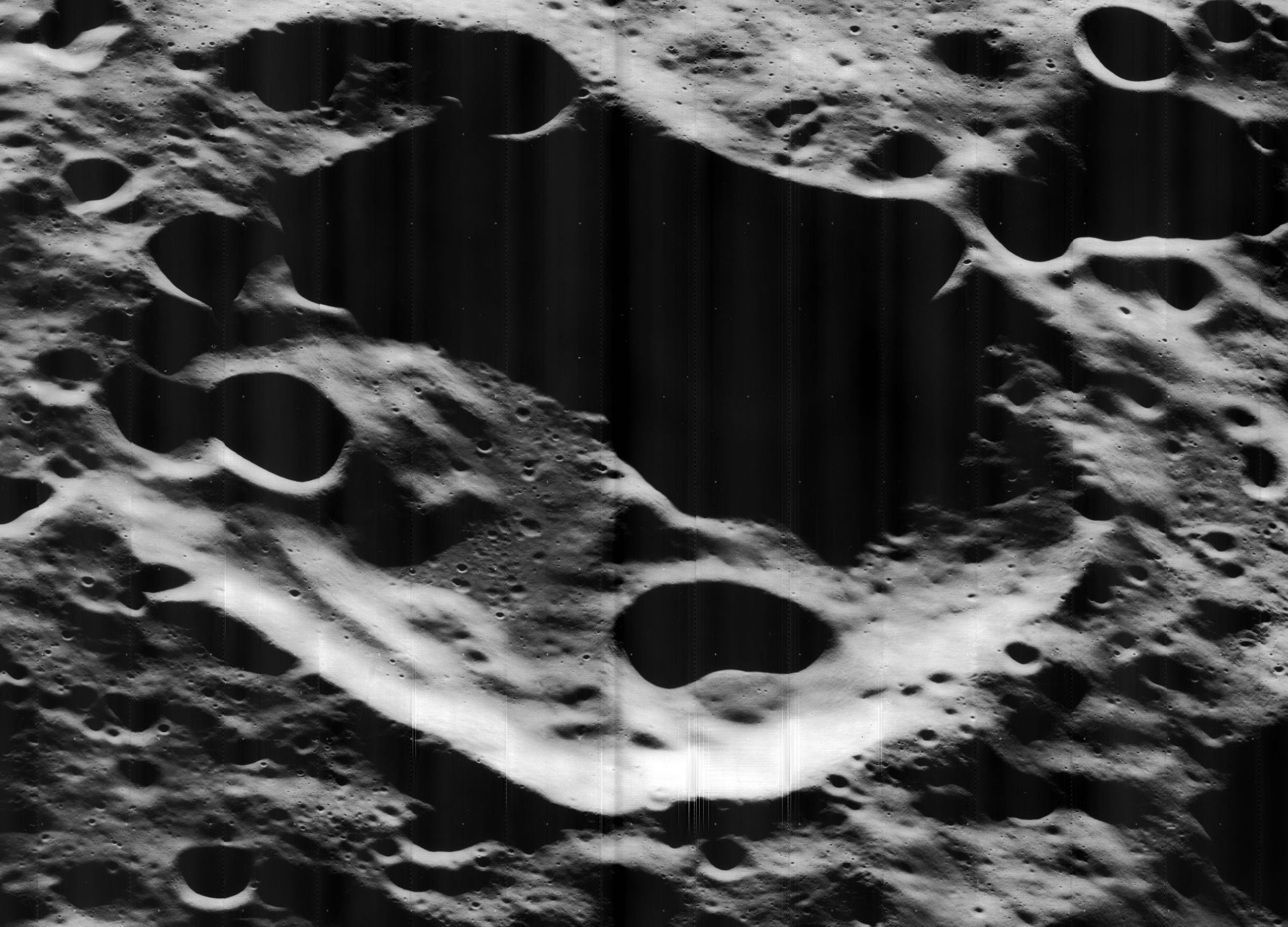 Oblique view of Perkin, on the far side of the moon, facing west.